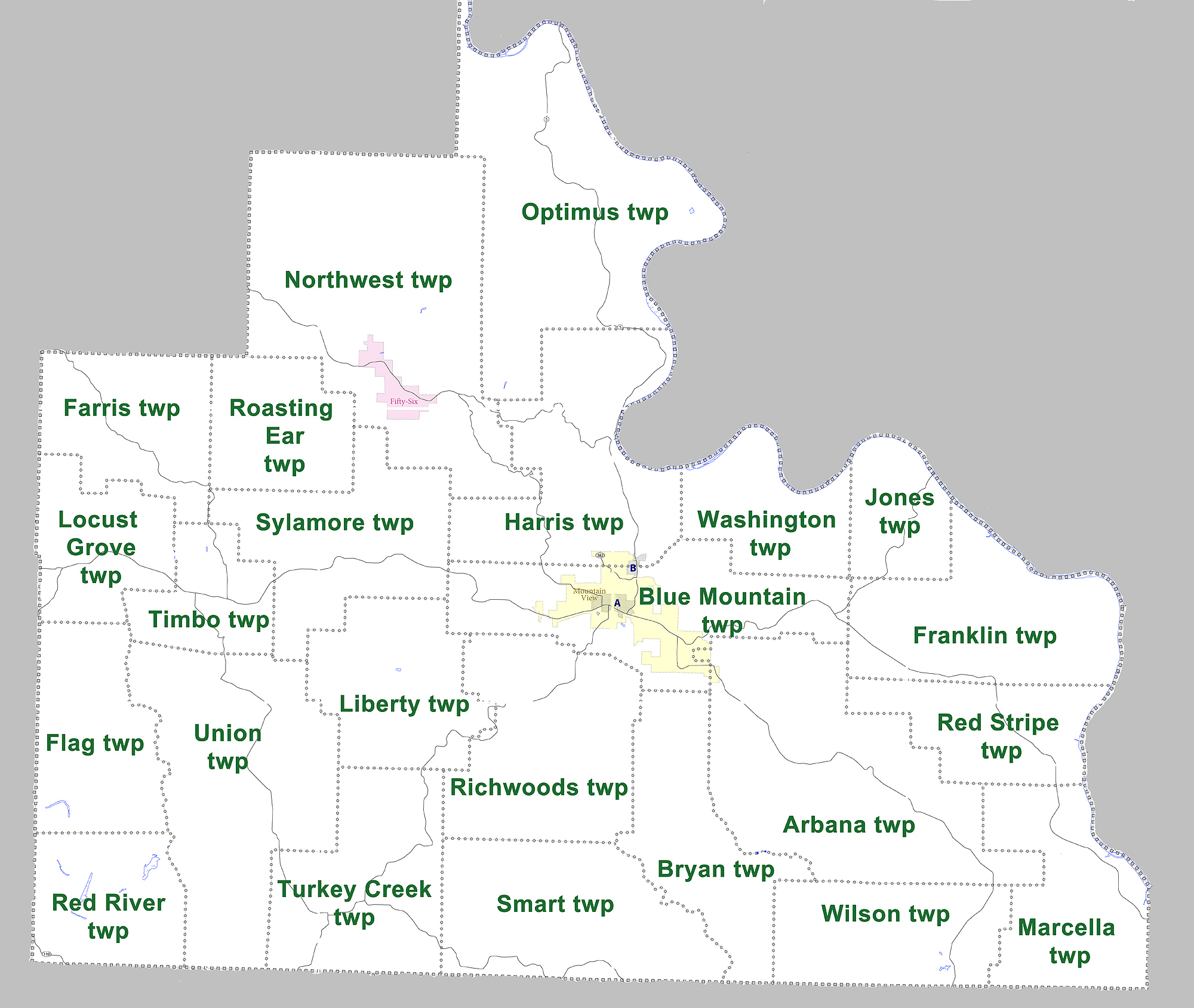 Large map showing townships in Stone County, Arkansas. Modified from US census map (for 2010 census) for Stone County, Arkansas